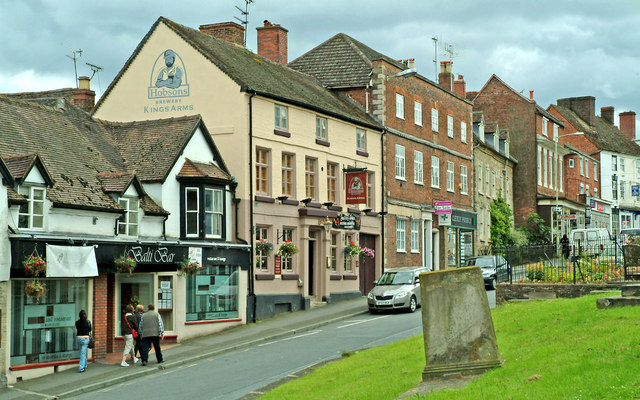 Kings Arms, 6 Church Street An 18th century coaching inn remodelled from a much earlier building. The local Cleobury Mortimer mini-brewery Hobsons has an interest in the pub and their logo can be seen on the end wall as well as on the pub sign. To the left can be seen part of the Balti Bar next door.